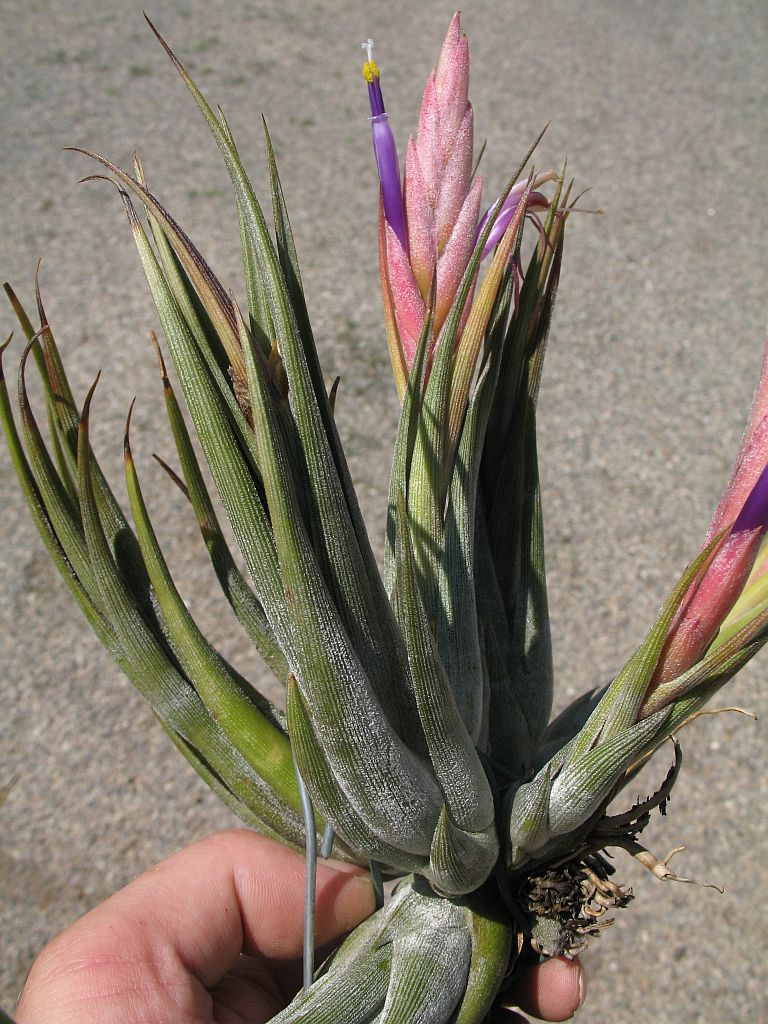 Tillandsia circinnatoides in cultivation at the Botanical Garden of Heidelberg, Germany.